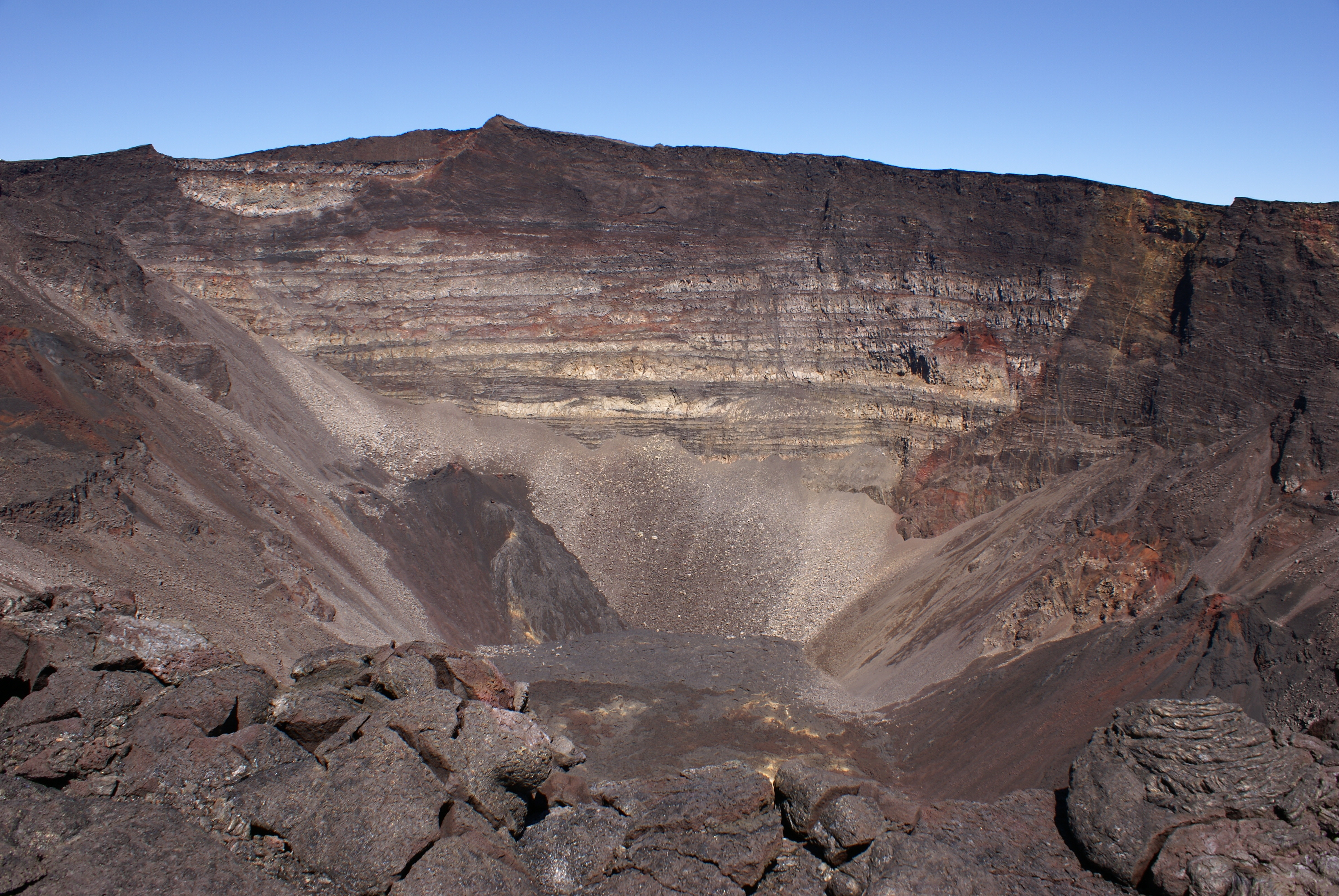 Crater Dolomieu on Piton de la Fournaise